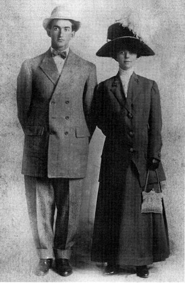 Baseball player Joe Jackson and his wife, Katie Wynn, on their wedding day.